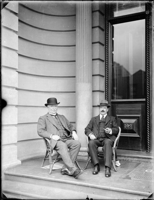 William Ferguson Massey (left), 19th Prime Minister of New Zealand, and Sir Joseph George Ward (right), 17th Prime Minister of New Zealand